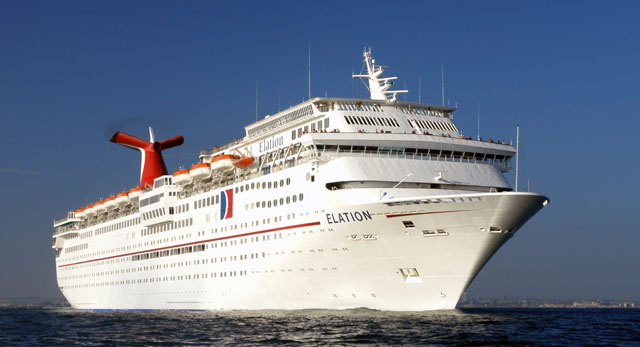 MS (Motor Ship) Elation picks up speed after leaving San Diego bay on a Mexican Riviera Cruise